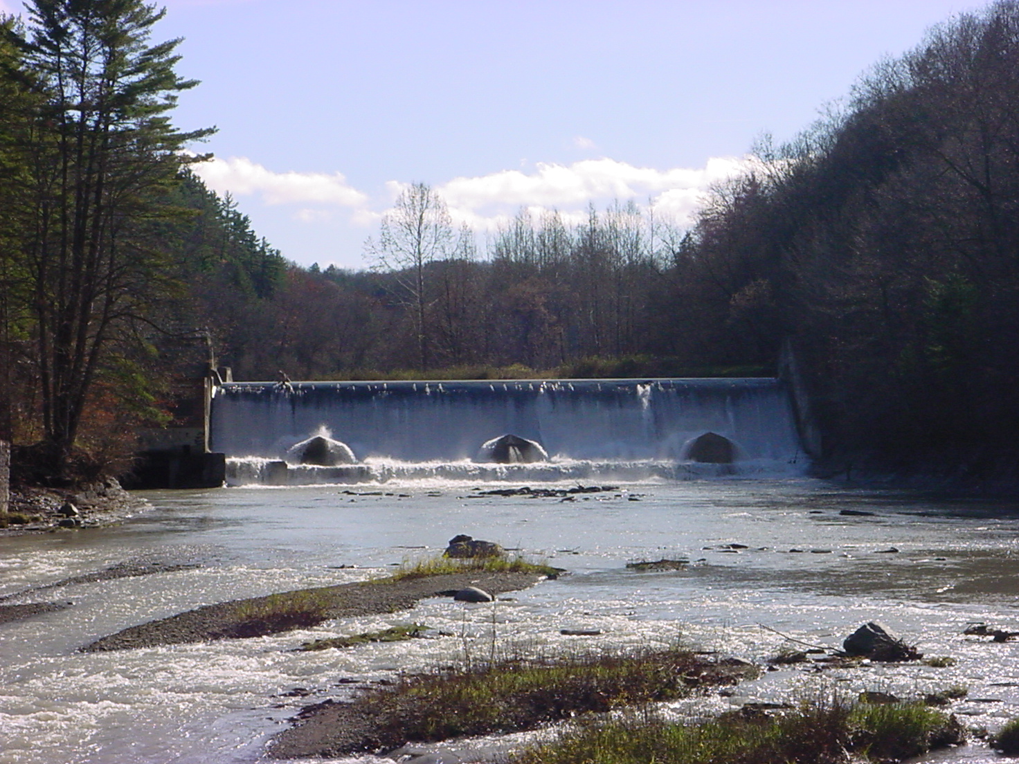 Photo of the Scobey Power Plant and Dam at Springville, New York. This place is listed on the National Register of Historic Places